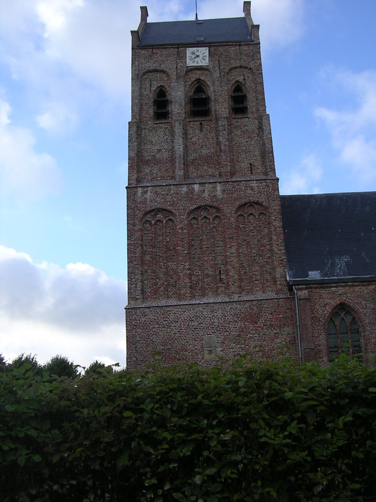 The tower of the church of Ferwert